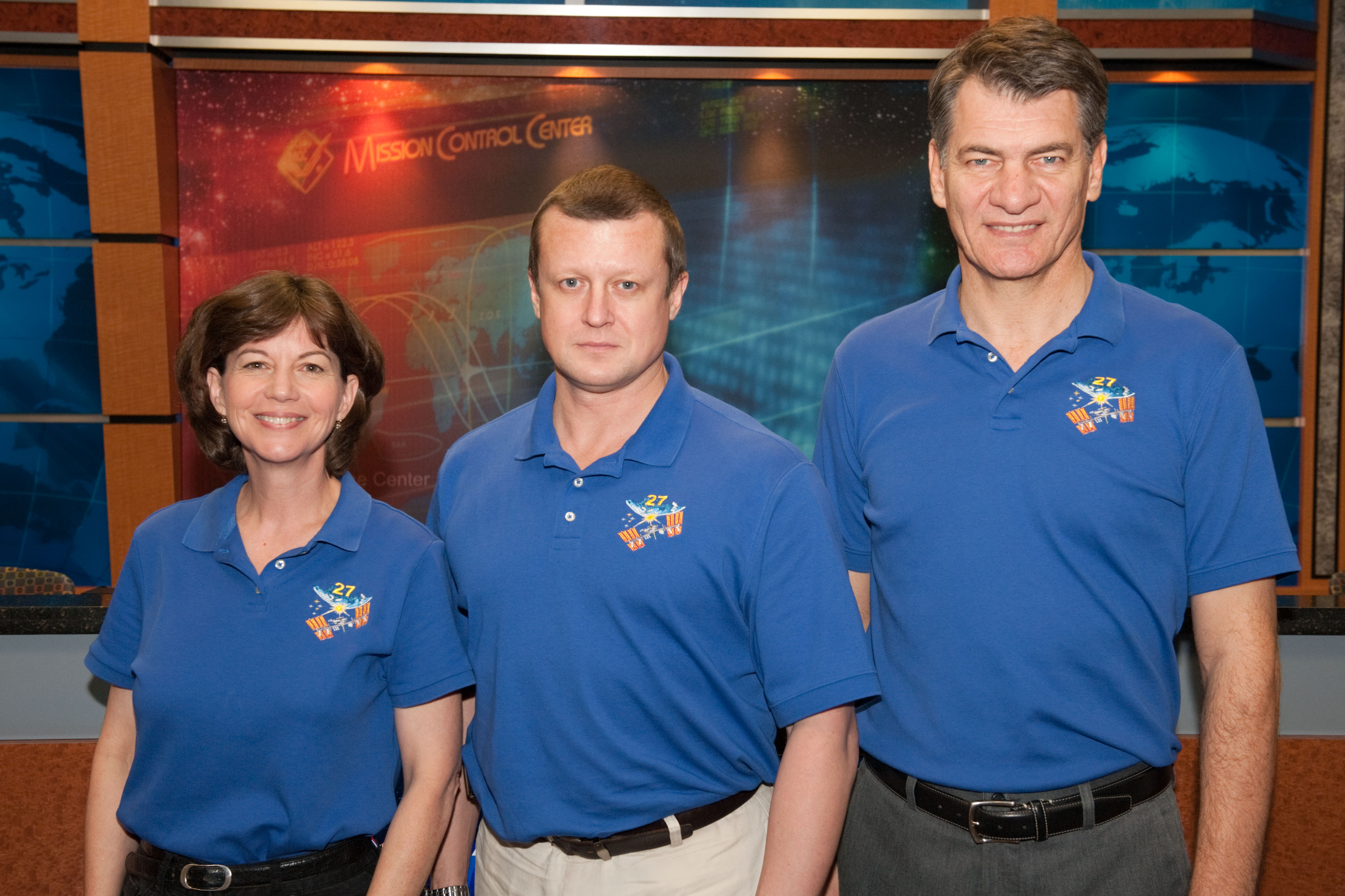 Russian cosmonaut Dmitri Kondratyev (center), Expedition 26 flight engineer and Expedition 27 commander; along with NASA astronaut Catherine Coleman and European Space Agency (ESA) astronaut Paolo Nespoli, both Expedition 26/27 flight engineers, pose for a portrait following an Expedition 26/27 preflight press conference at NASA's Johnson Space Center. Kondratyev, Coleman and Nespoli are scheduled to launch to the International Space Station aboard a Russian Soyuz spacecraft in December 2010.